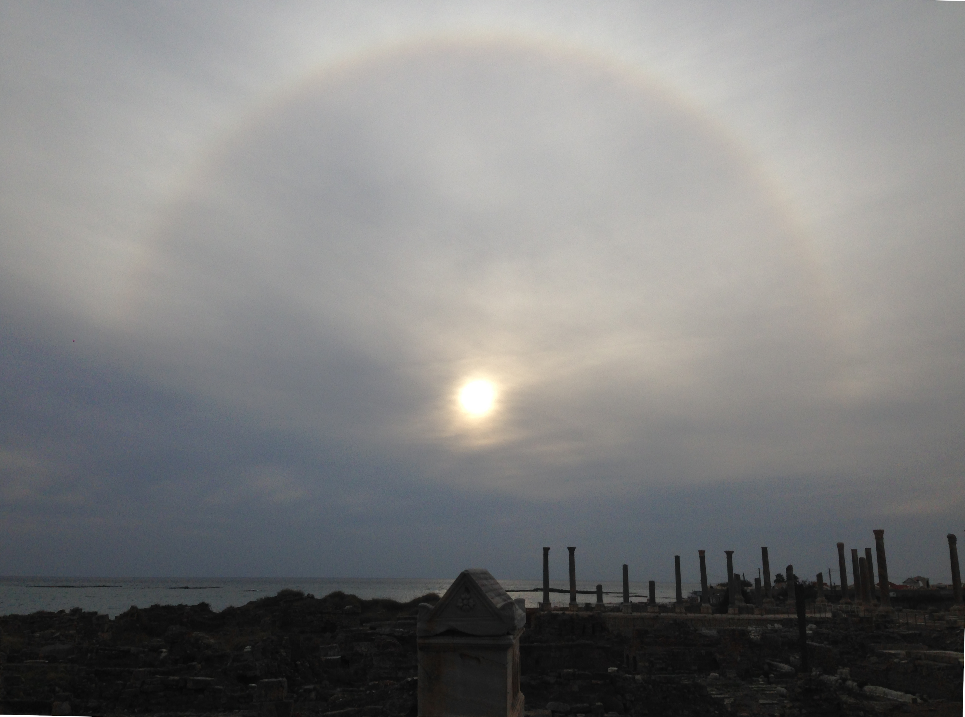 A rainbow arch over the UNESCO World Heritage archaeological site of Al Mina (City site) on Southwestern side of Tyre/Sour peninsula, Southern Lebanon, with the Roman period sarcophagus of one Antipater in the centre.